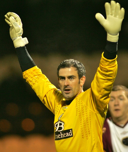 Paul Gallacher playing for St. Mirren F.C. in a Scottish Premier League match against Heart of Midlothian F.C. on 29 December 2010.